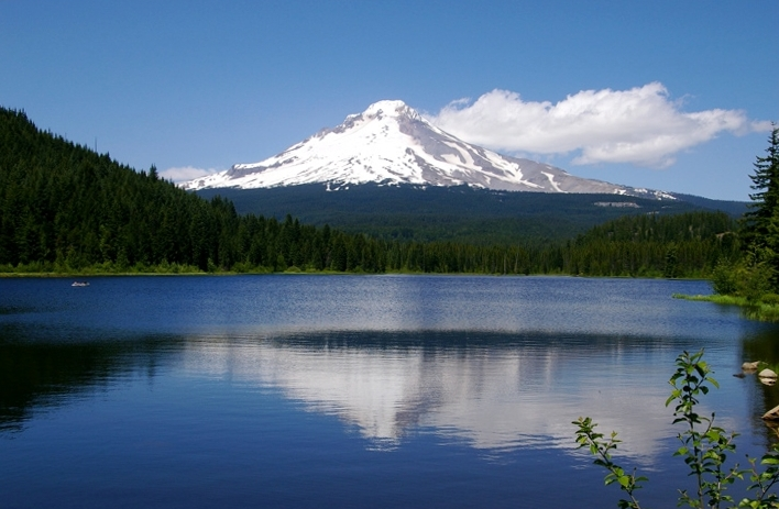 Mount Hood as seen from a small lake to the southeast